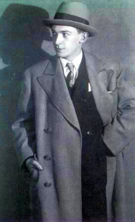 Jenő Dsida (1907-1938) Hungarian poet in Cluj